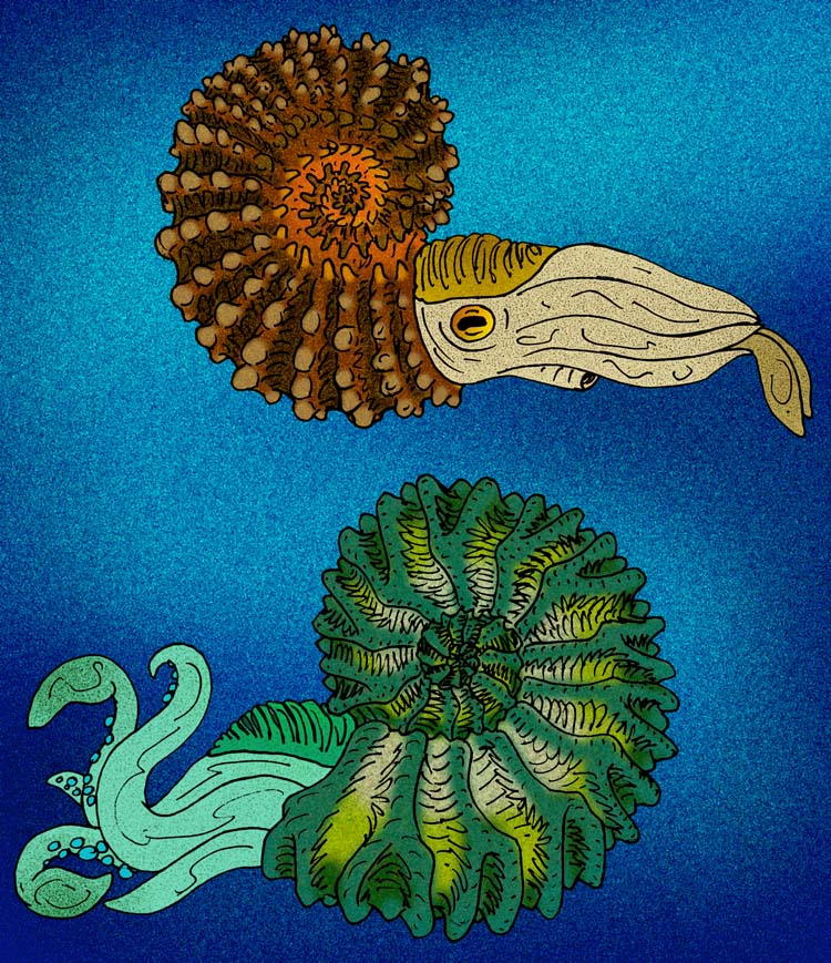 Reconstructions of the French ammonites Douvilleiceras mammilatum and Hoplites dentatus from the Lower Cretaceous. (C) Stanton F. Fink